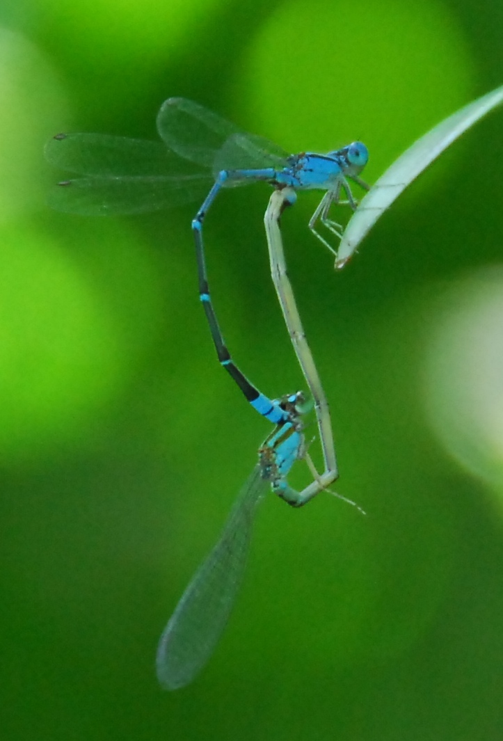 Blue damselflies mating over a pool in Bali, Indonesia, di Jawa Tengah disebut dengan Kinjeng dan dalam bahasa Indonesia disebut sebagai Capung yang mengilhami nama salah satu jenis Pesawat terbang.